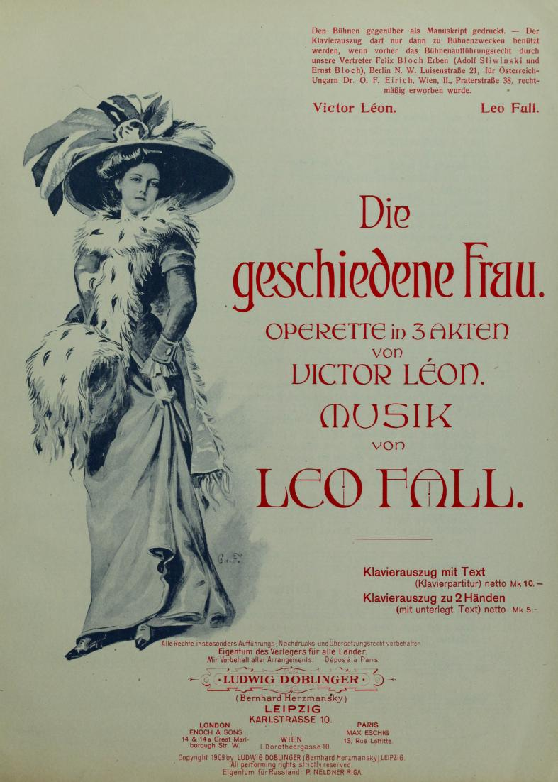 Title page of the vocal score to Leo Fall's operetta Die geschiedene Frau